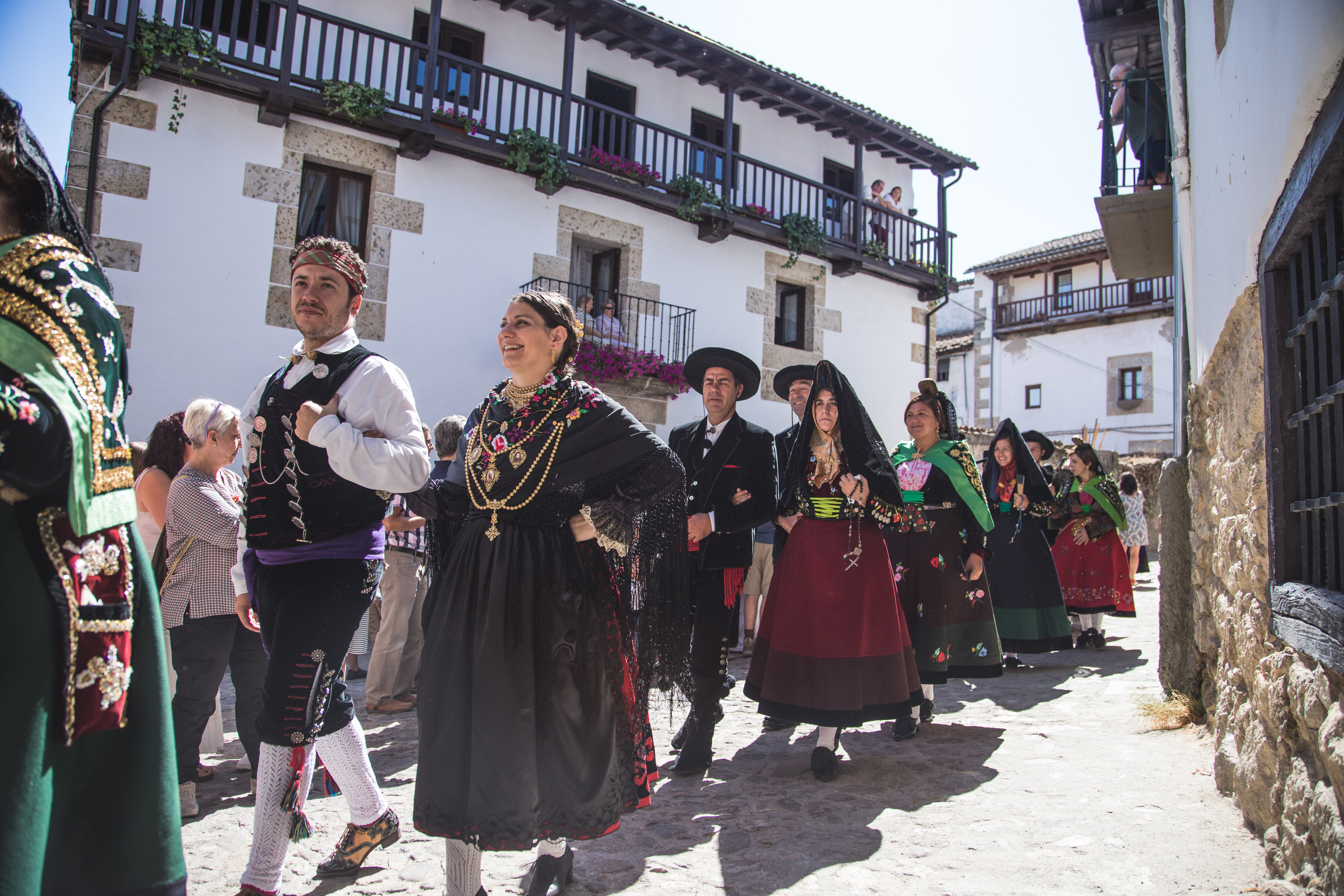 Candelario This is a photography of a Folklore festival in Spain (Wikidata id Q23658027).